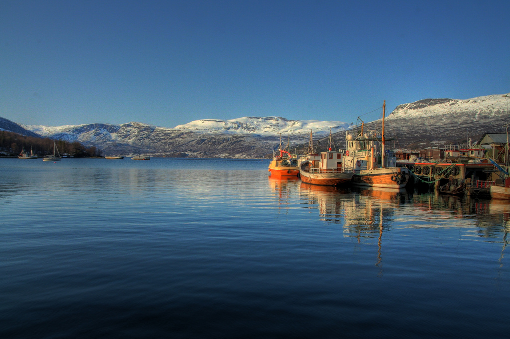 Taken on the docks at the Norwegian Army's Amphicentre at Gratangen, Norway. Modified by User:Natl1.